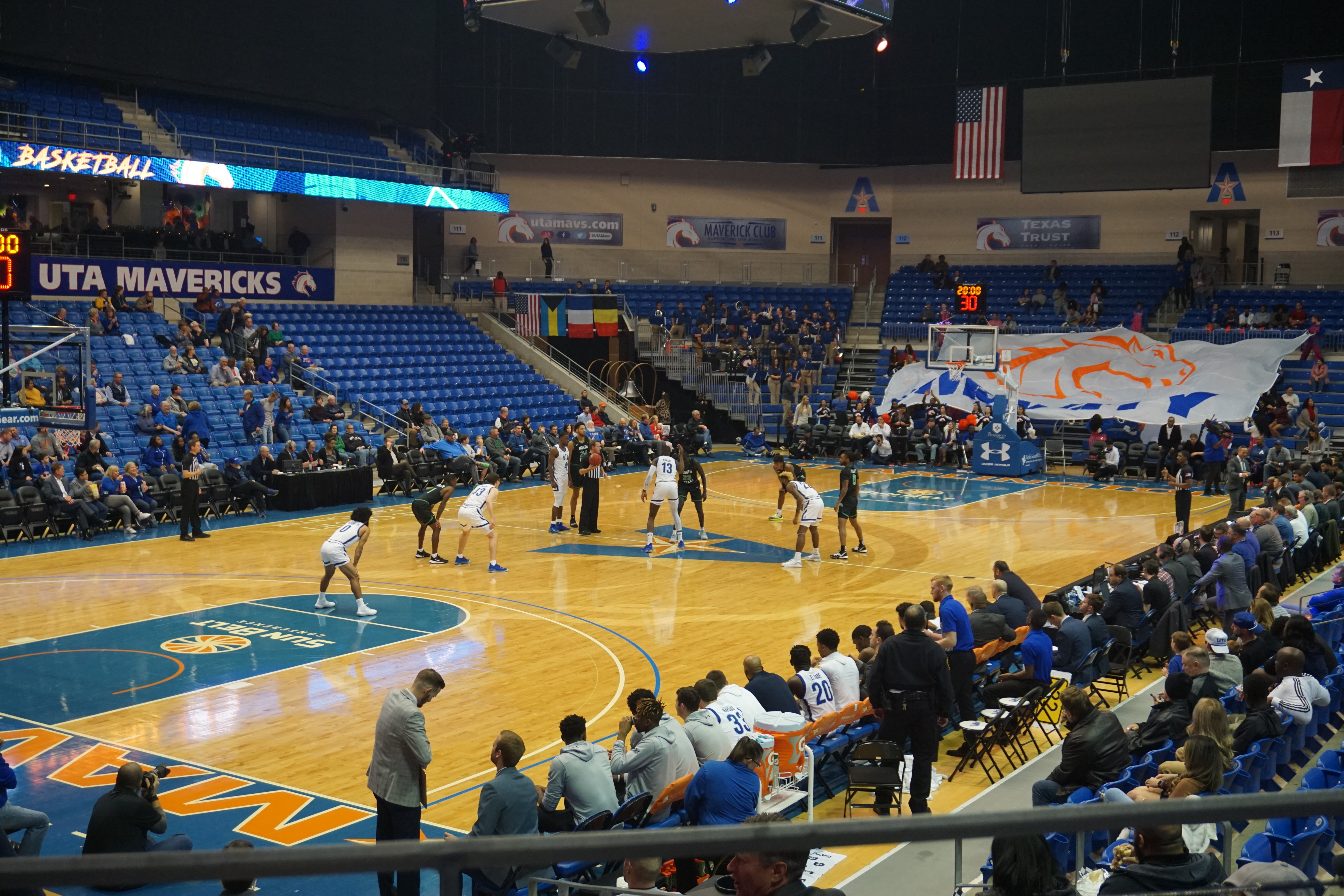 In-game action during the North Texas Mean Green vs. UT Arlington Mavericks men's basketball game at College Park Center in Arlington, Texas (United States). North Texas won 77–66.